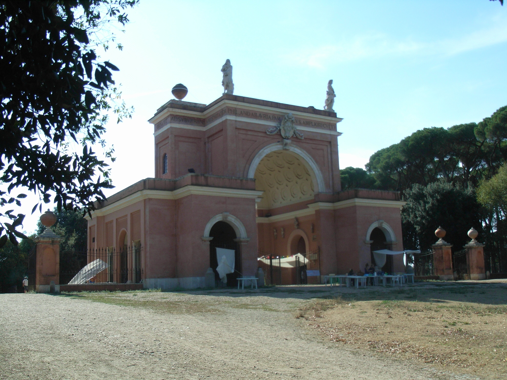 Pamphili Park Arch near Entrance